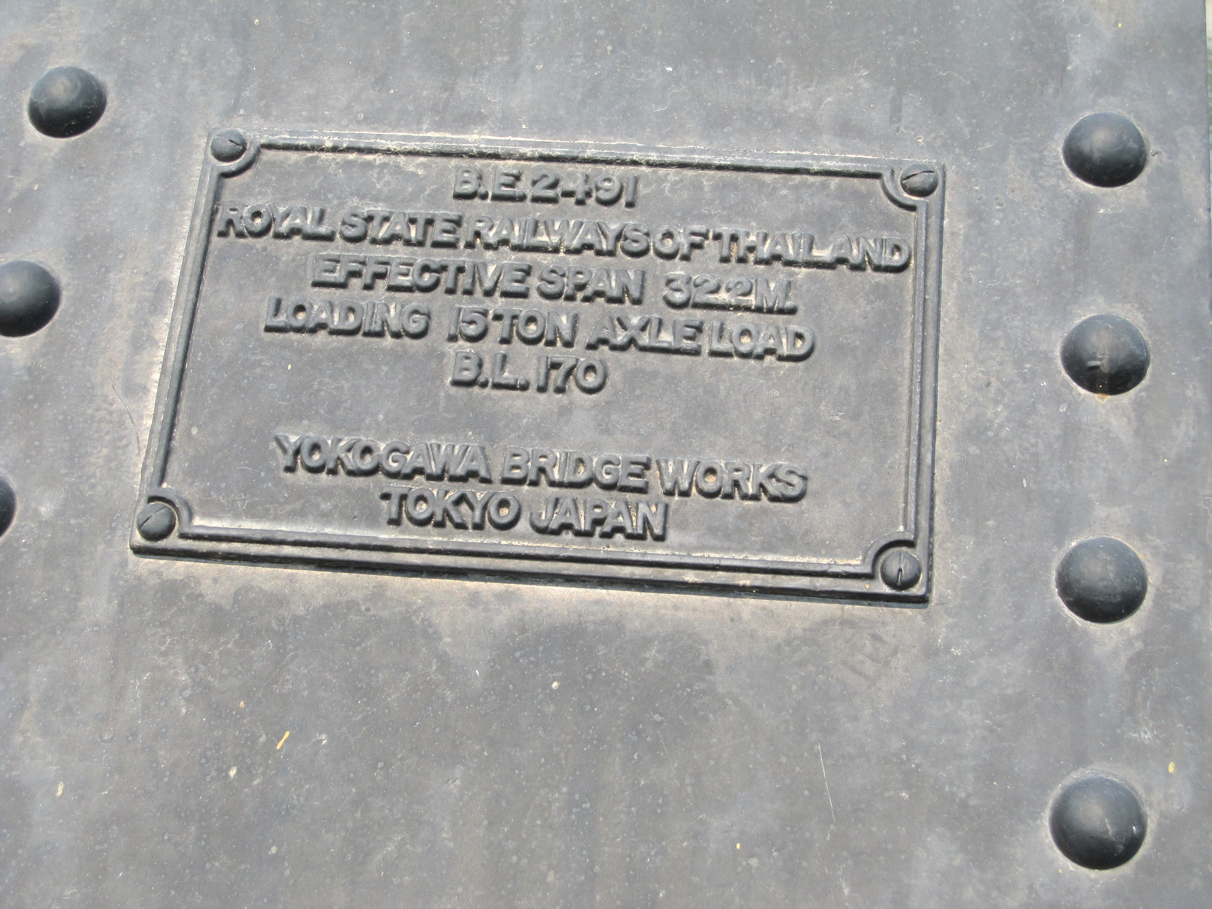 The word of "YOKOGAWA BRIDGE WORKS" is written on this plate.